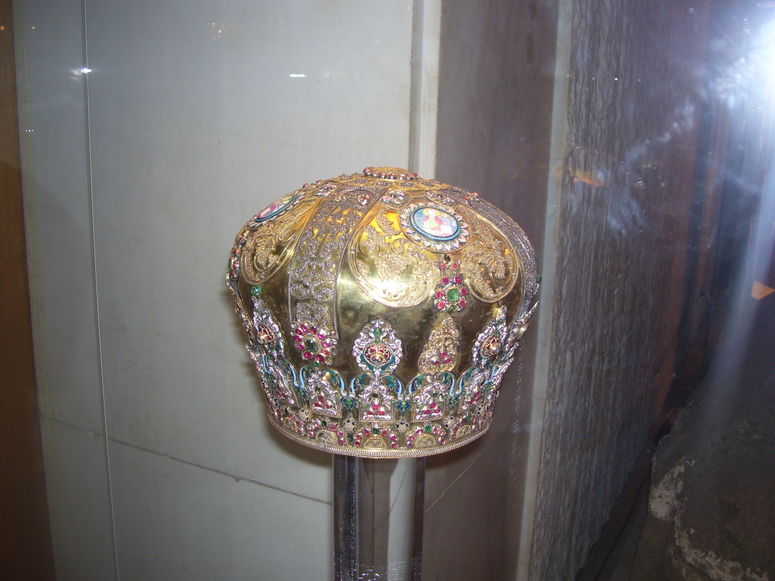 Mitra of Bulgarian Archbishop of Ohrid